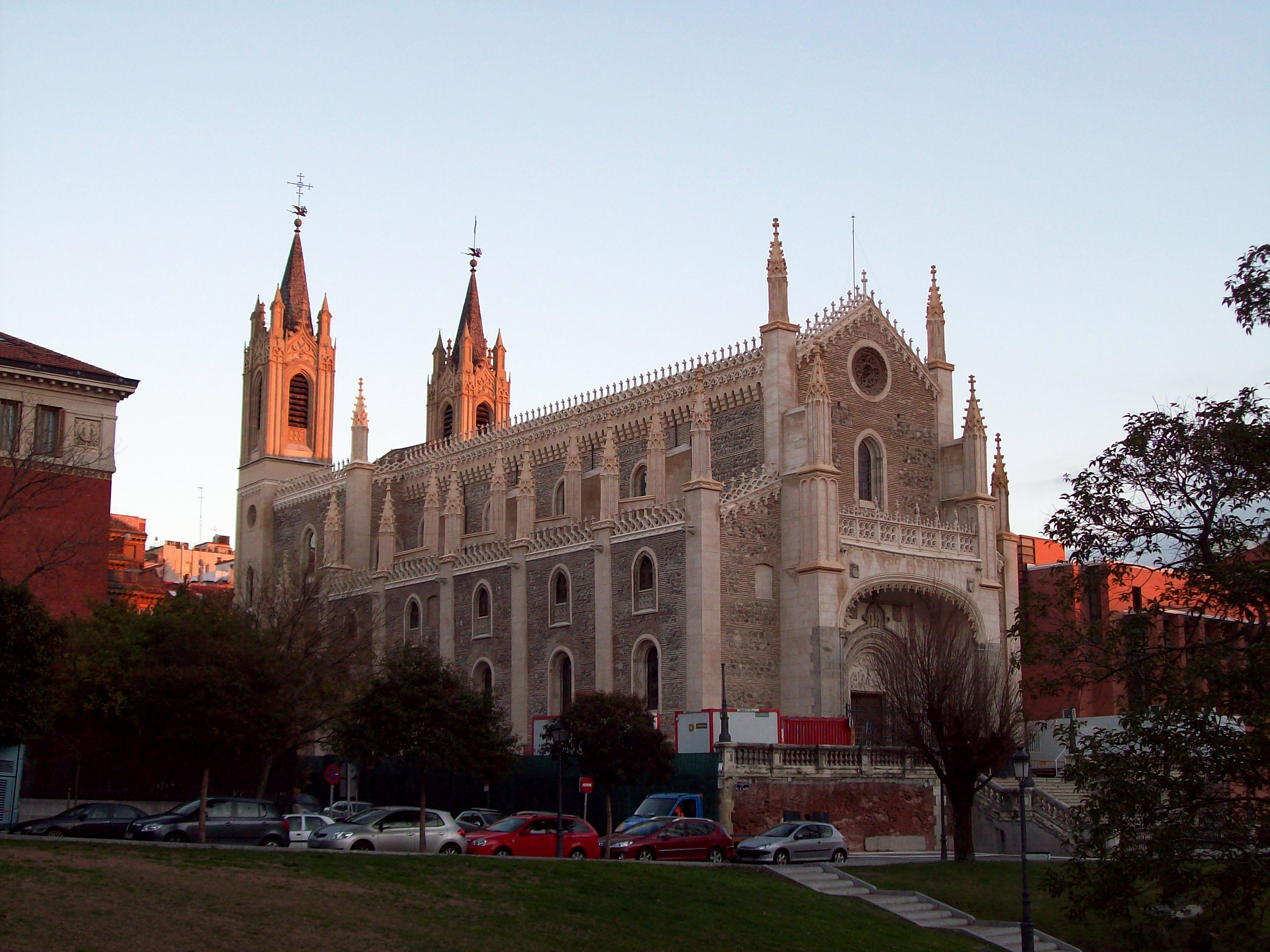 Façade of St. Jerome Church in Madrid (Spain).